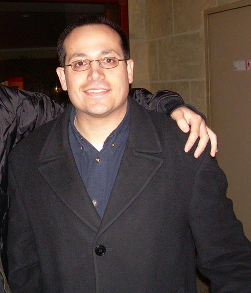 My friend with Joey Styles